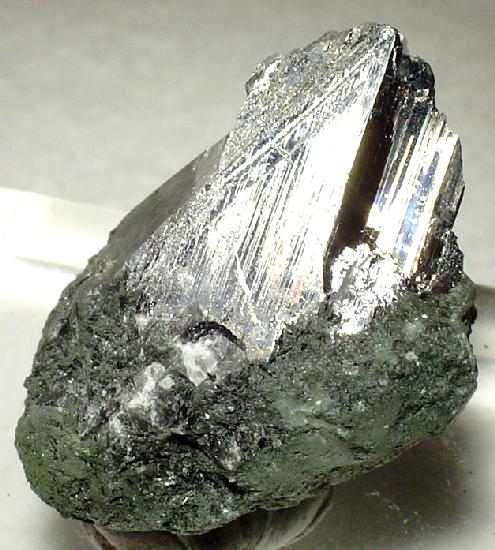 Bismuthinite Locality: Biggenden Mine (Mount Biggenden Mine; Biggenden Gold And Bismuth Mine; Mount Biggenden Bismuth Mine; Mount Biggenden Magnetite Mine; Biggenden Quarry), Biggenden Shire, Queensland, Australia (Locality at ) An excellent Bismuthinite crystal with superb metallic lustre from a famous old and classic Australian locality. 3.0 x 2.5 x 2.0 cm